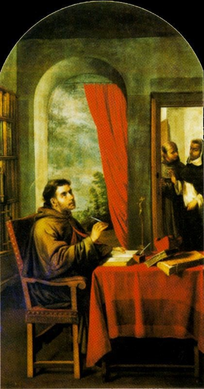 "San Buenaventura recibe la visita de Santo Tomás de Aquino", by Francisco de Zurbarán. The painting is in the Church of San Francisco el Grande, Madrid, Spain